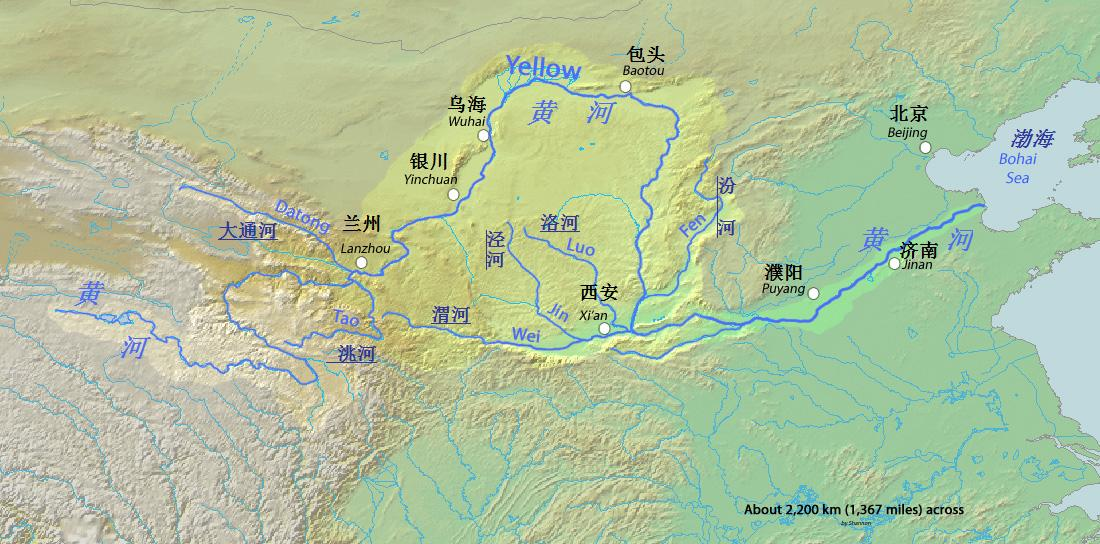 Map of the Yellow River, whose watershed covers most of northern China and drains to the Bohai Sea